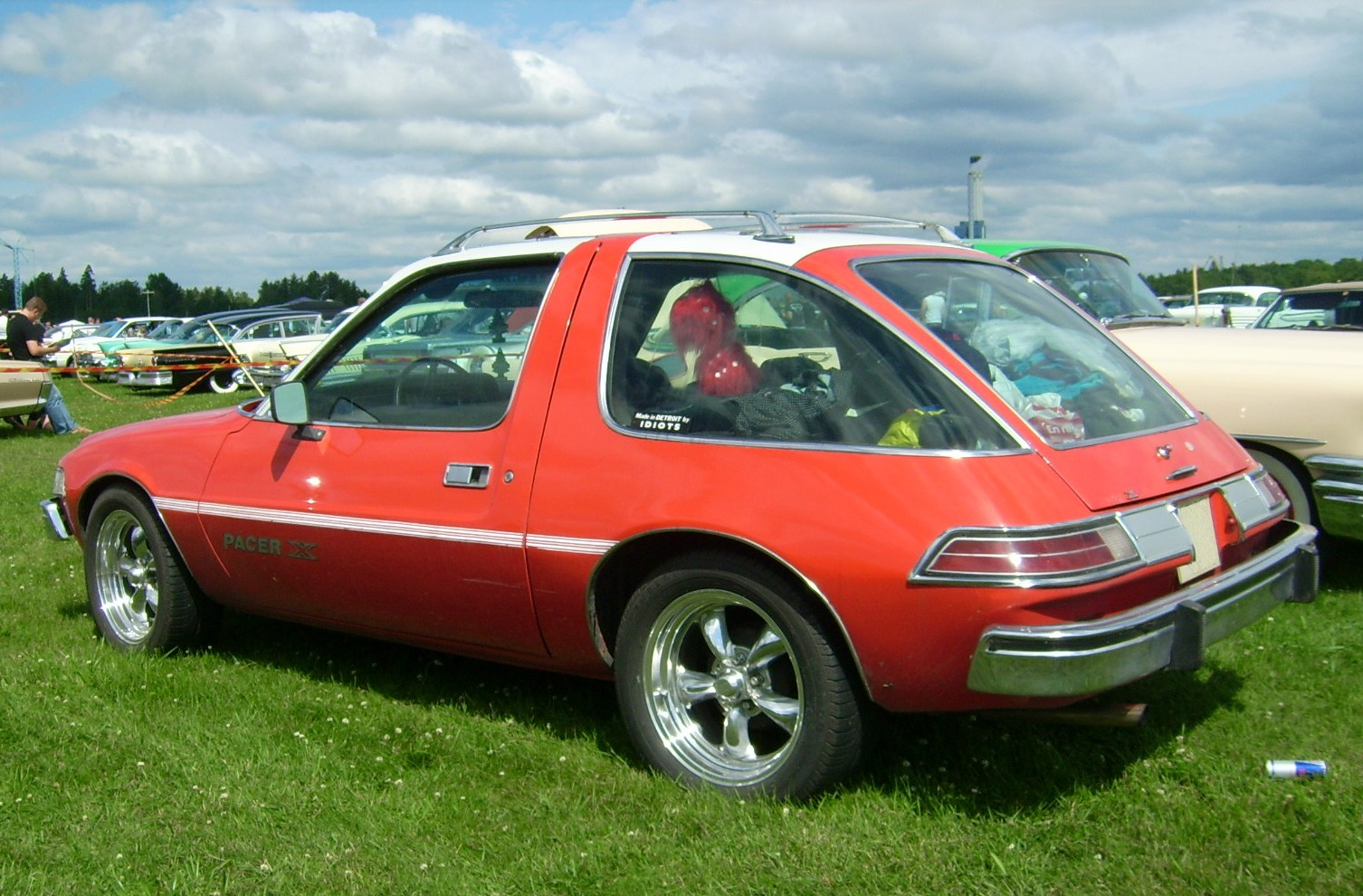 AMC Pacer X Liftback Coupe (1975/76) at Power Big Meet 30th Anniversary in Västerås, Sweden. Wheels and white side stripes are not original, "X" option originally included color-keyed body side scuff moldings instead.